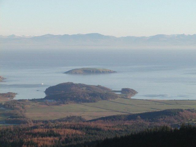 From Screel